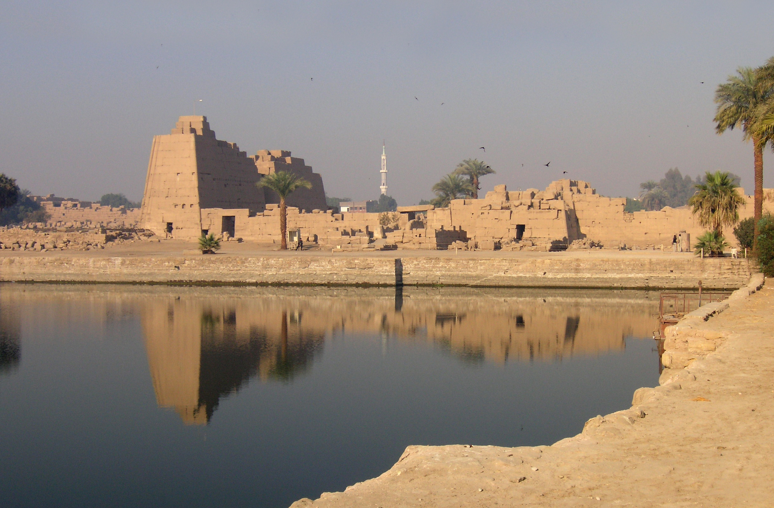 Karnak Temple near Luxor, Egypt.